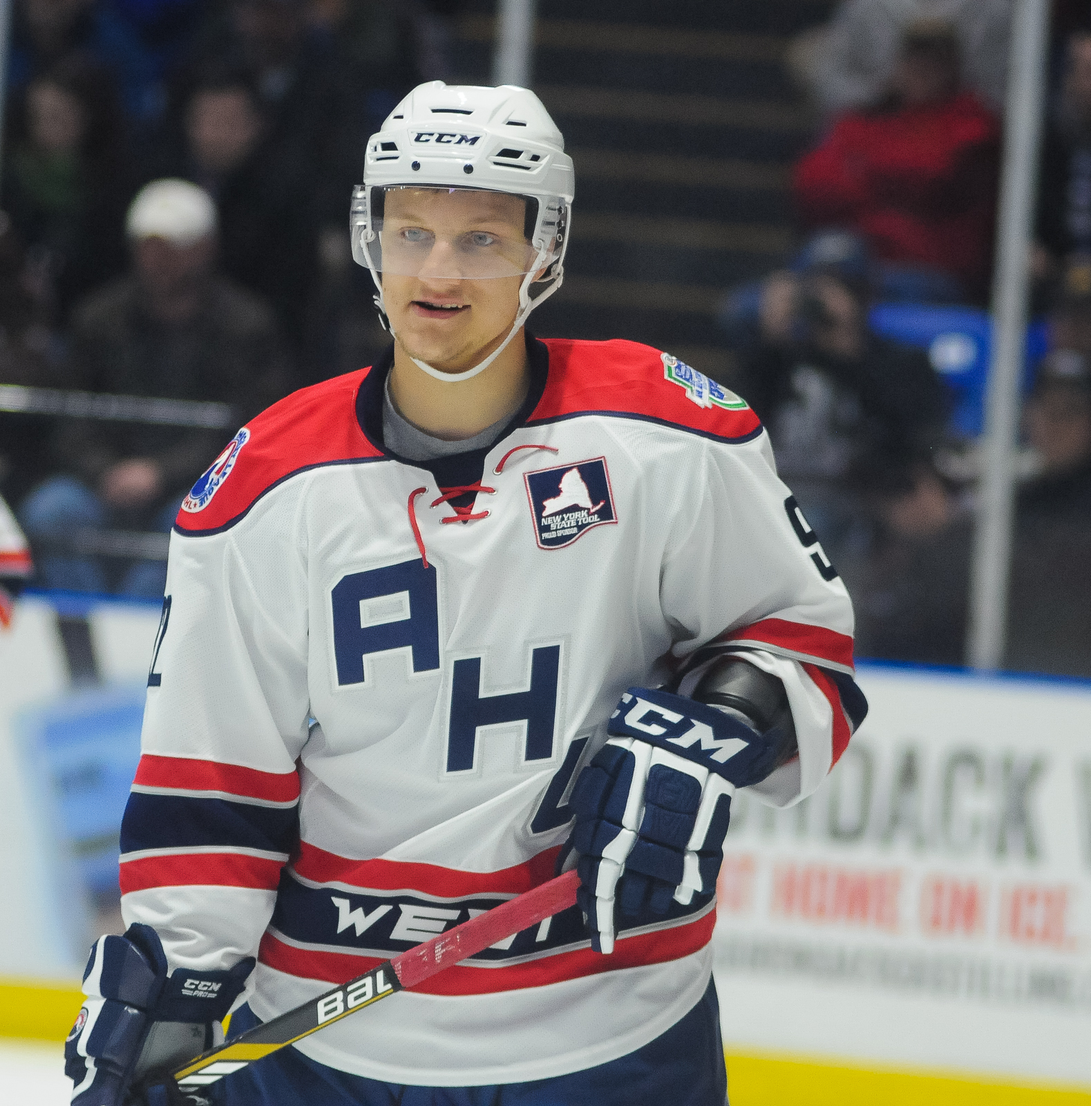 Teemu Pulkkinen during the 2015 AHL All-Star game